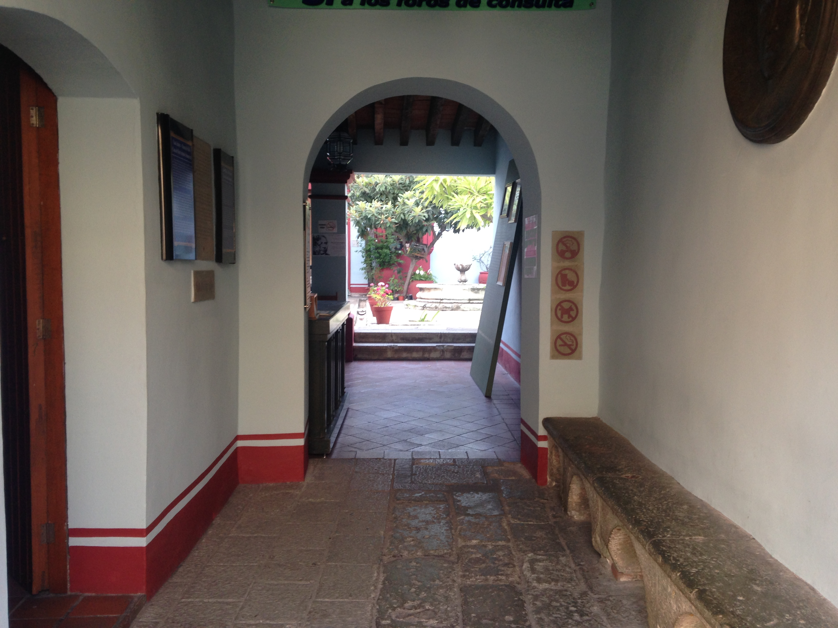 Museo de Sitio Casa de Juárez, Oaxaca, Oaxaca.